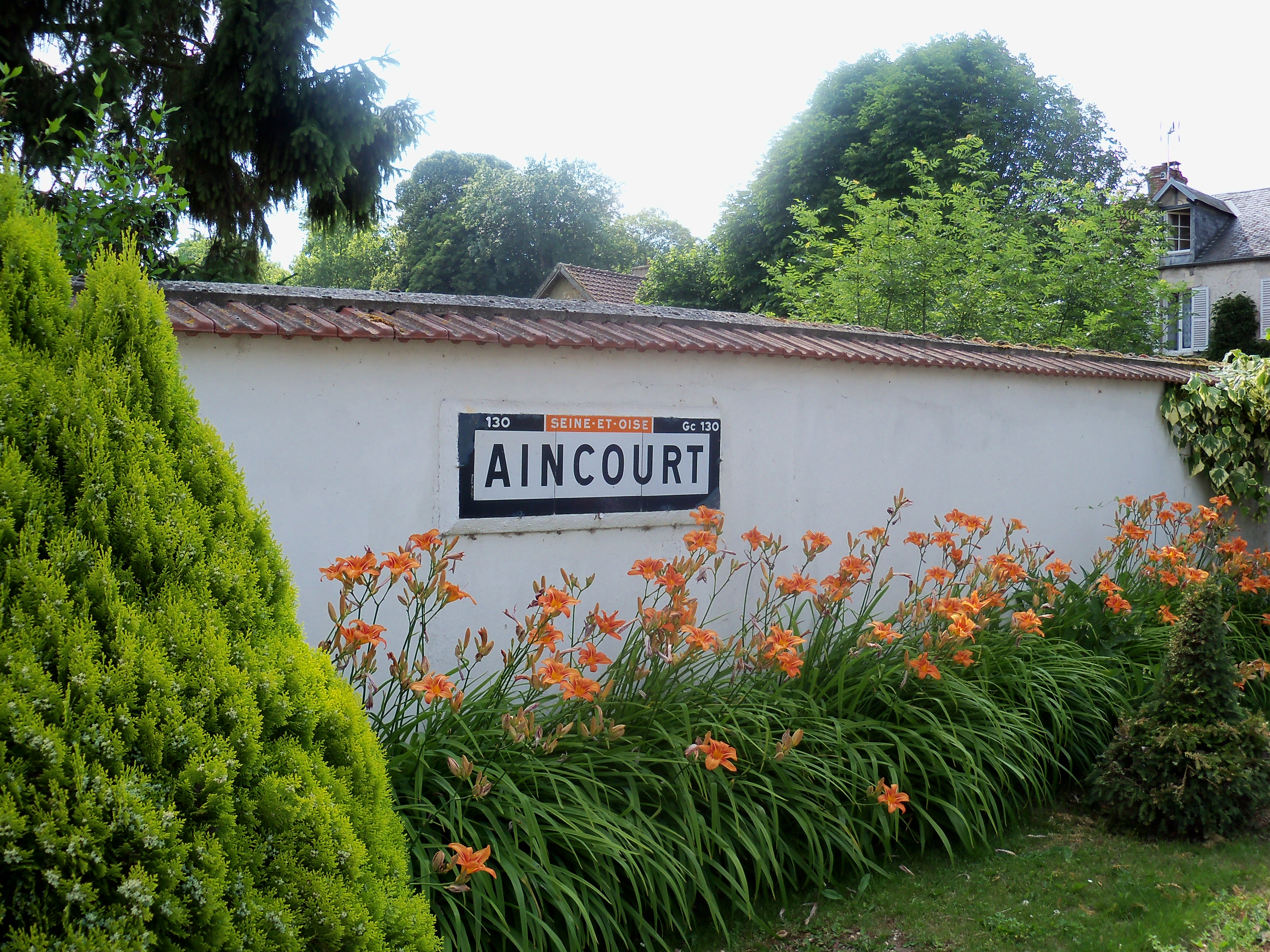 Photo taken in Aincourt in the Spring